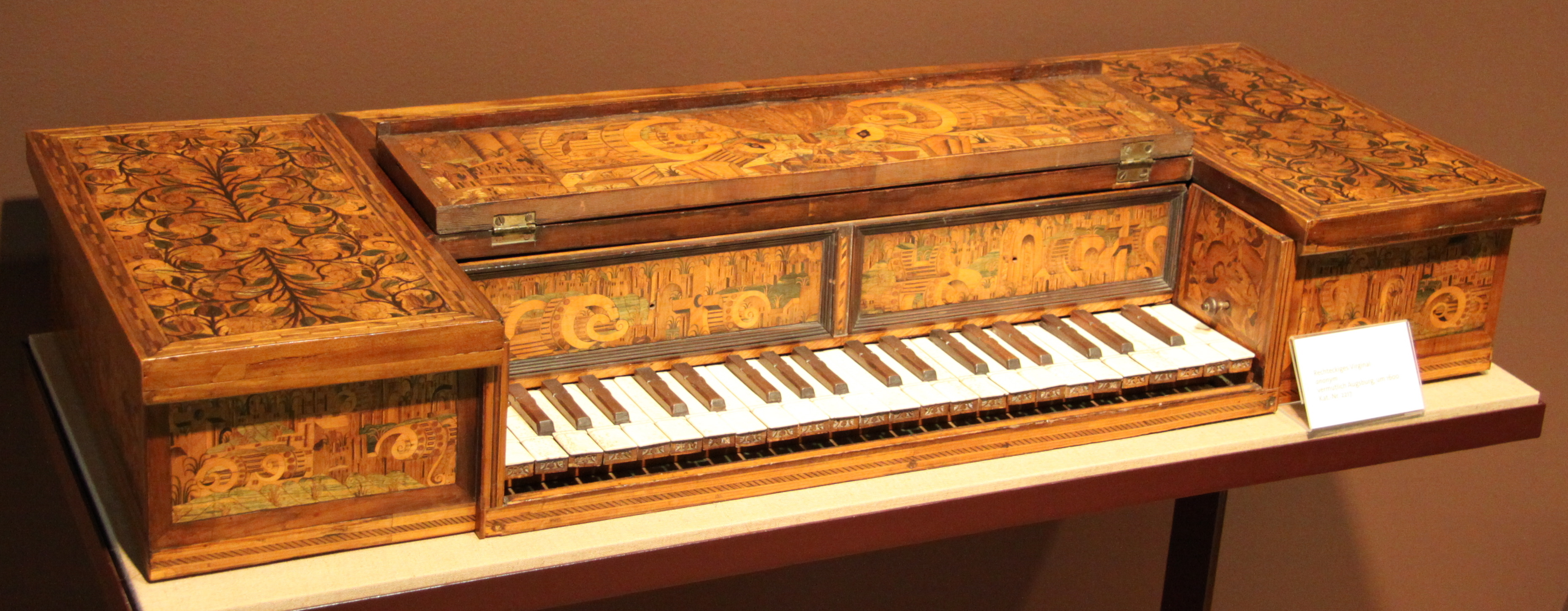 Augsburg virginal (around 1600) at the Music Instrument Museum, Berlin.